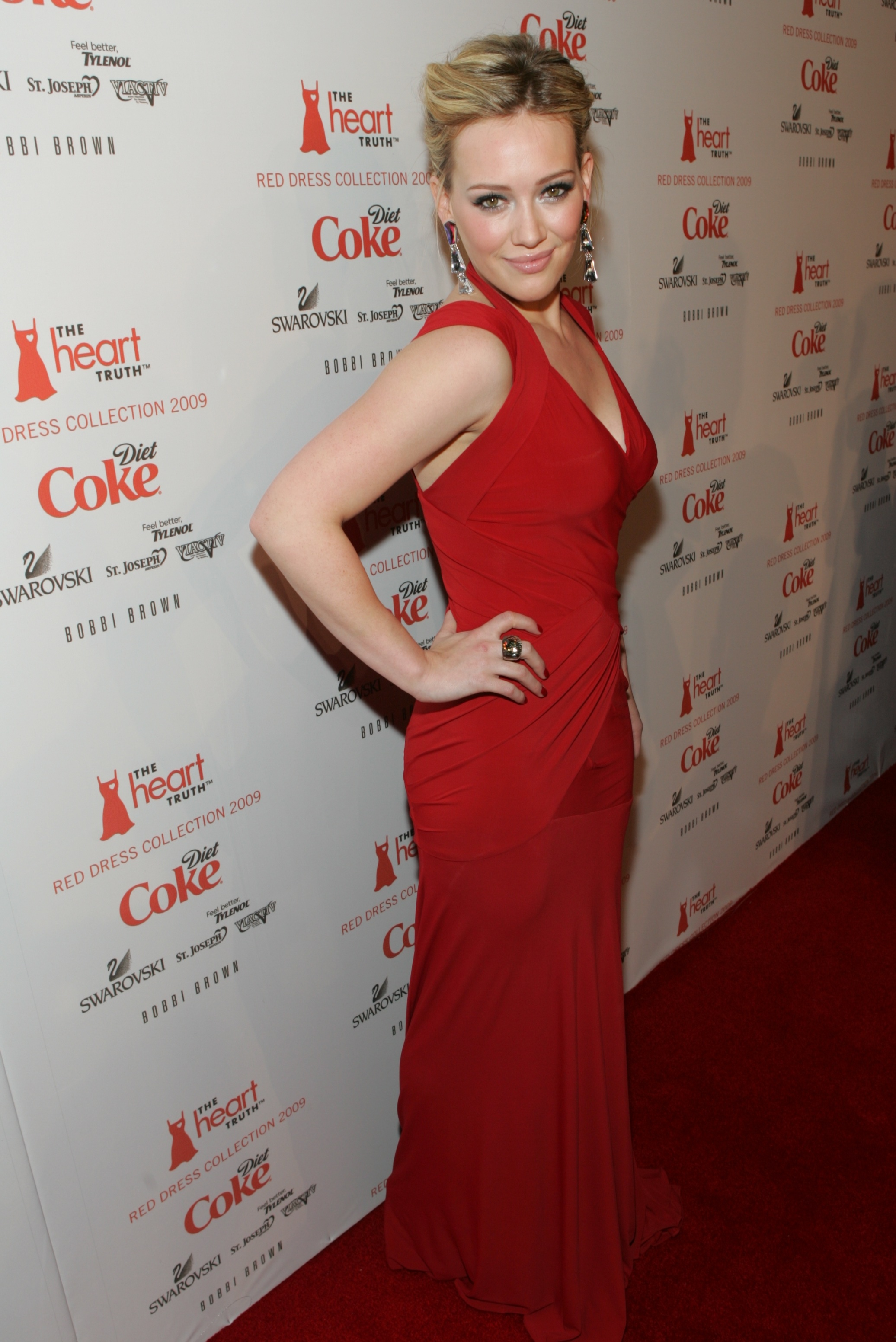 Hilary Duff at The Heart's Truth Red Dress Collection Fashion Show in 2009